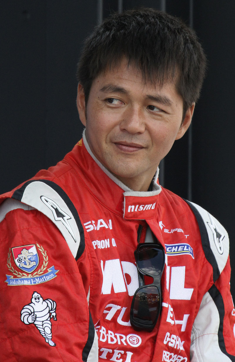 Motorsport Japan 2010: Satoshi Motoyama (Nismo / Super GT)